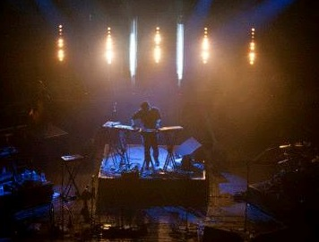 Live at brixton Academy, London in November 2013